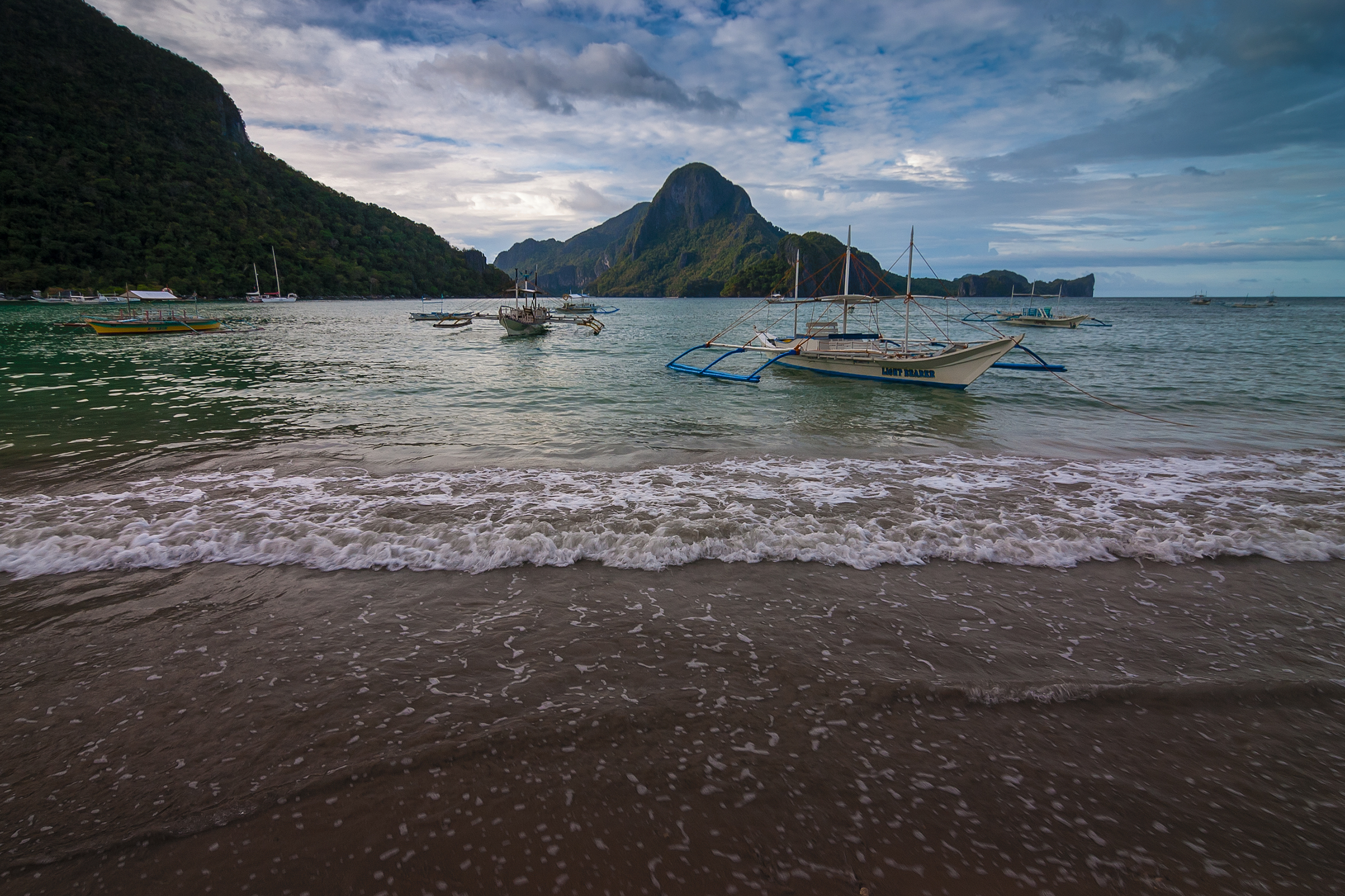 The boats at the El Nido, Palawan